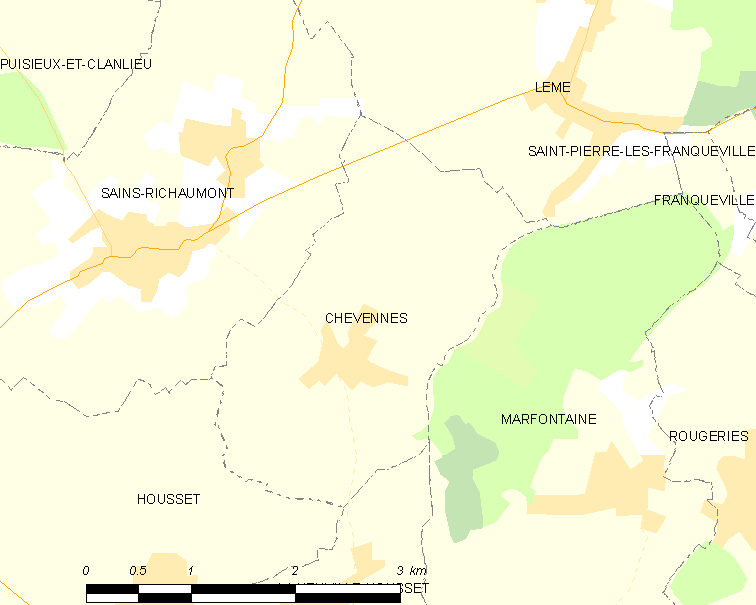 Map of French commune: Chevennes Map commune FR insee code 02182.png